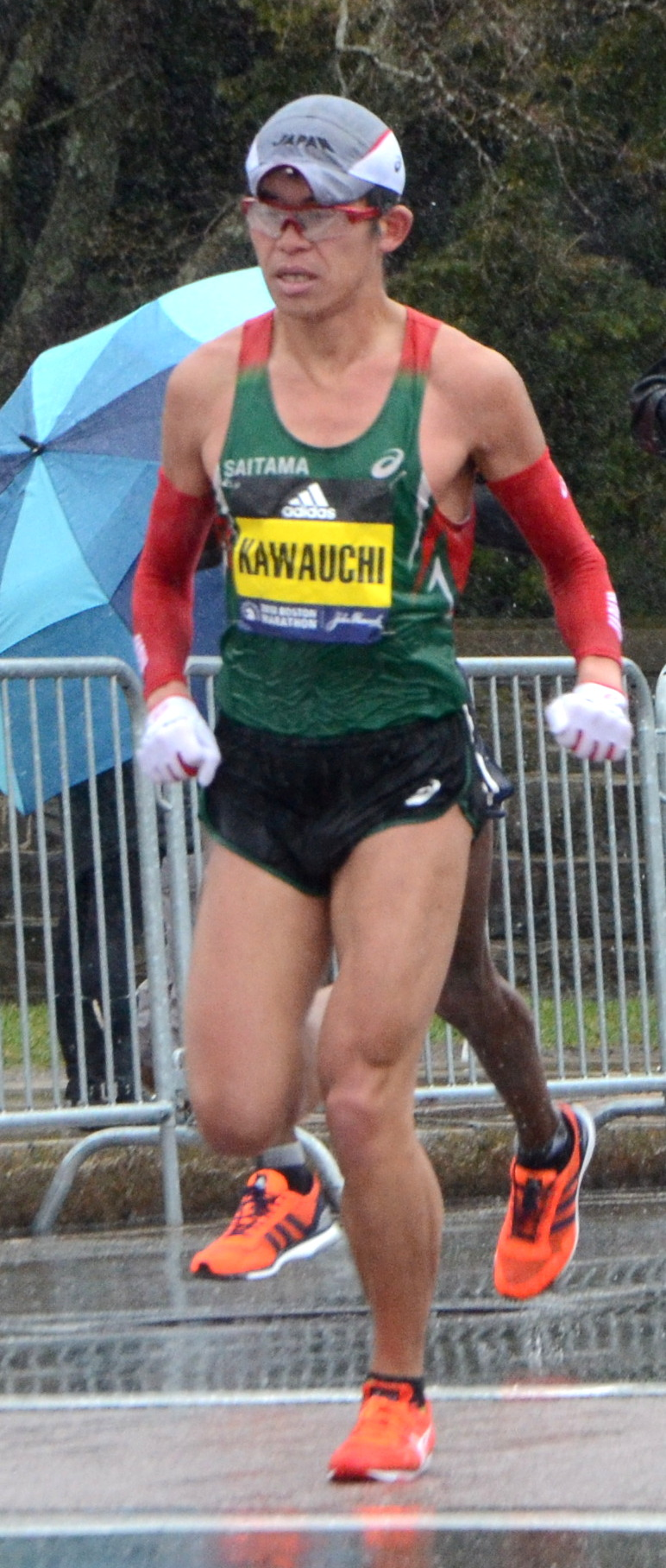 Yuki Kawauchi near halfway point of Boston Marathon 2018 in which he got first place.